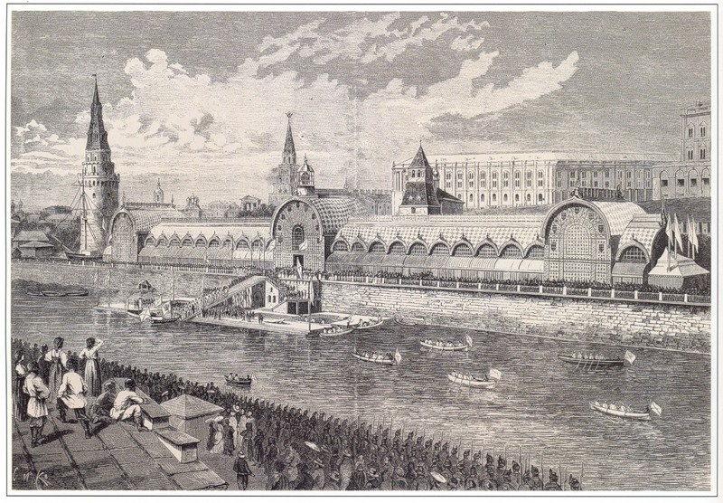 Engraving of a photo by M.P. Nastyukov depicting an event of the Moscow Polytechnic exhibit of 1872, an arrival of the boat of Peter the Great ("granddaddy of teh Russian fleet").